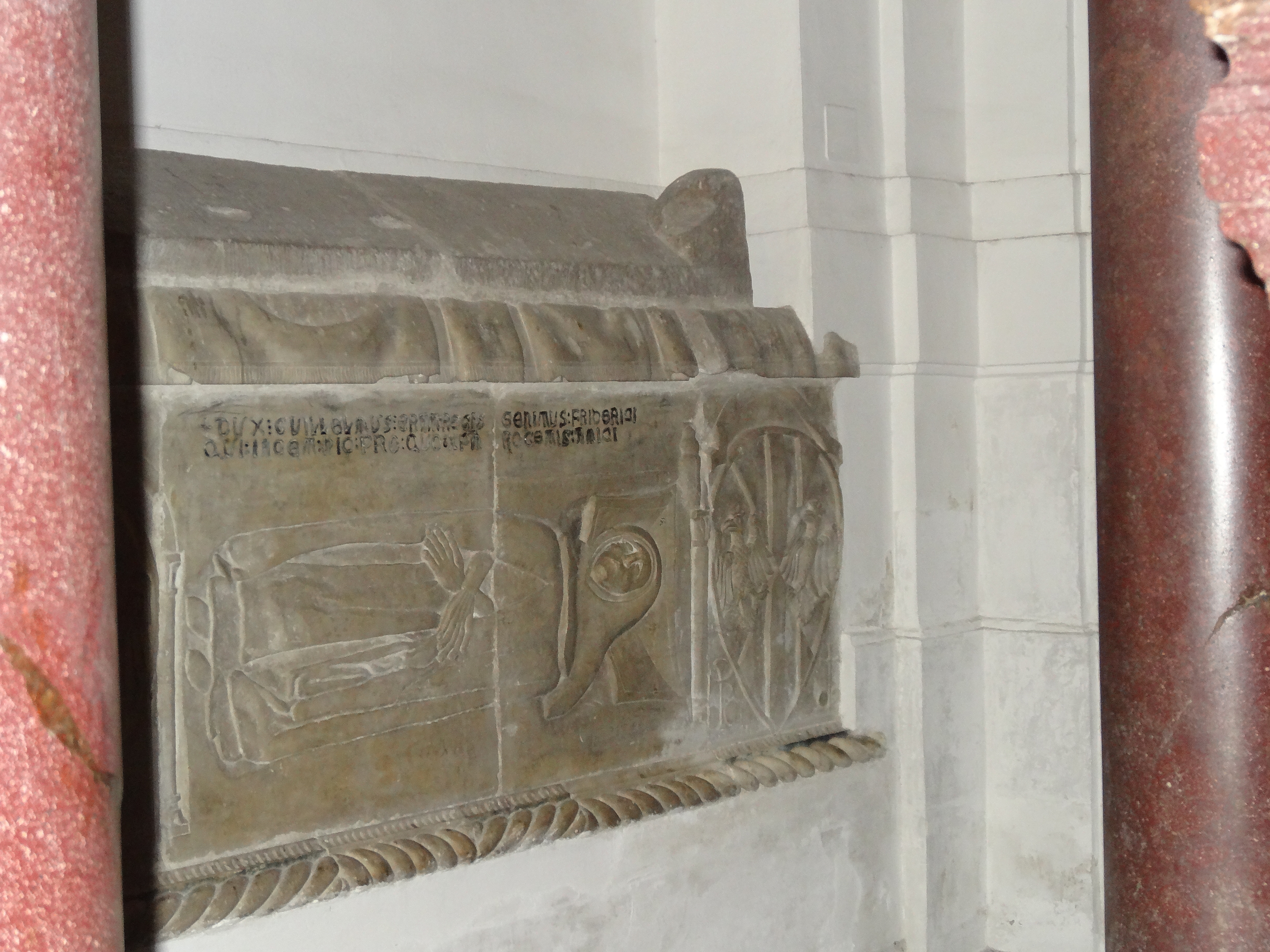 William II of Athens tomb